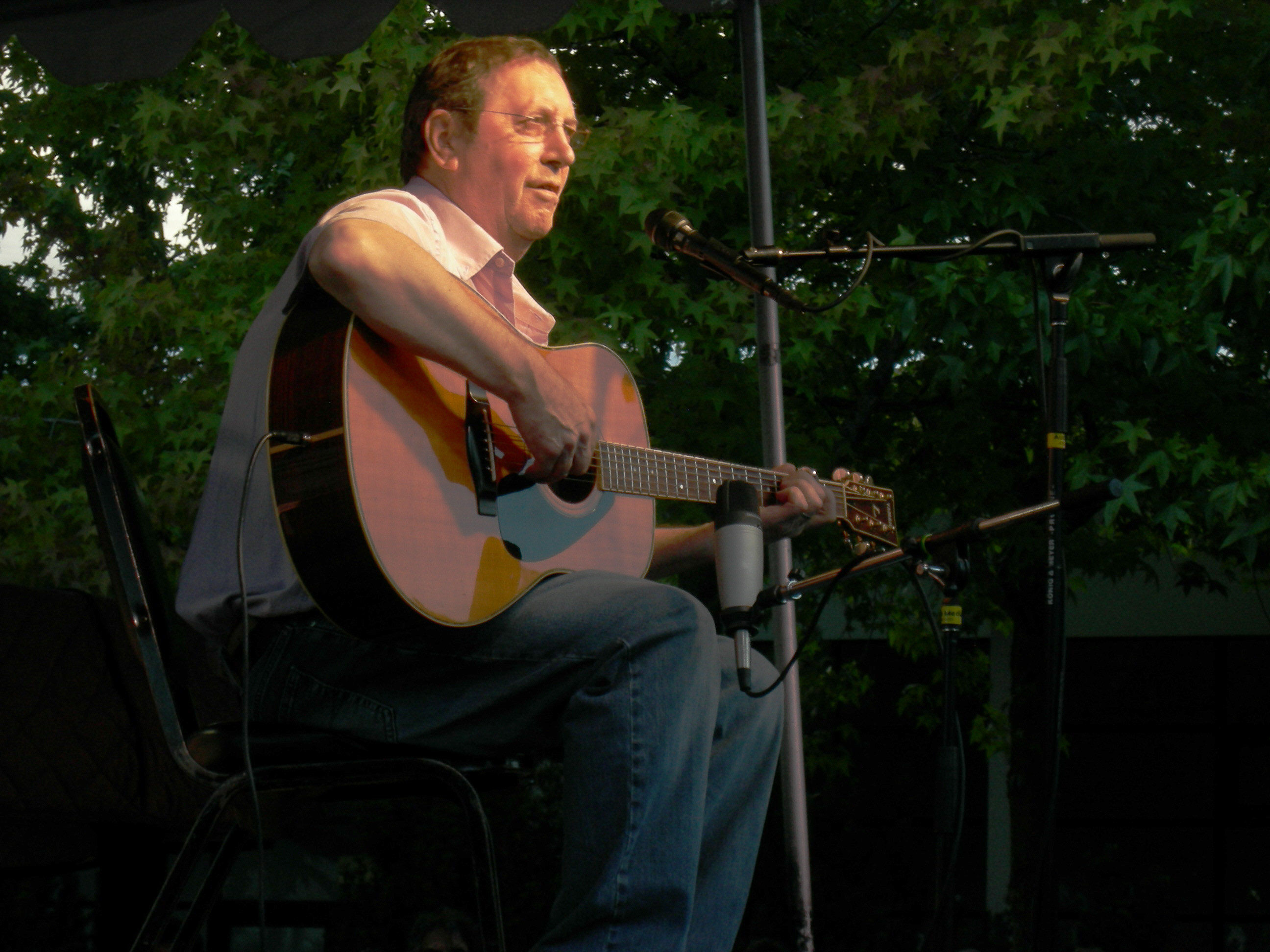 Bert Jansch performs at Bumbershoot, a music and arts festival held every Labor Day weekend at Seattle Center, Seattle, Washington, USA.